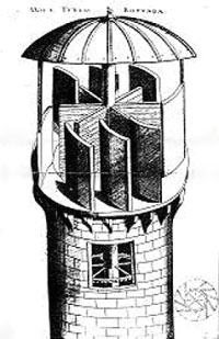 The very first wind turbine design